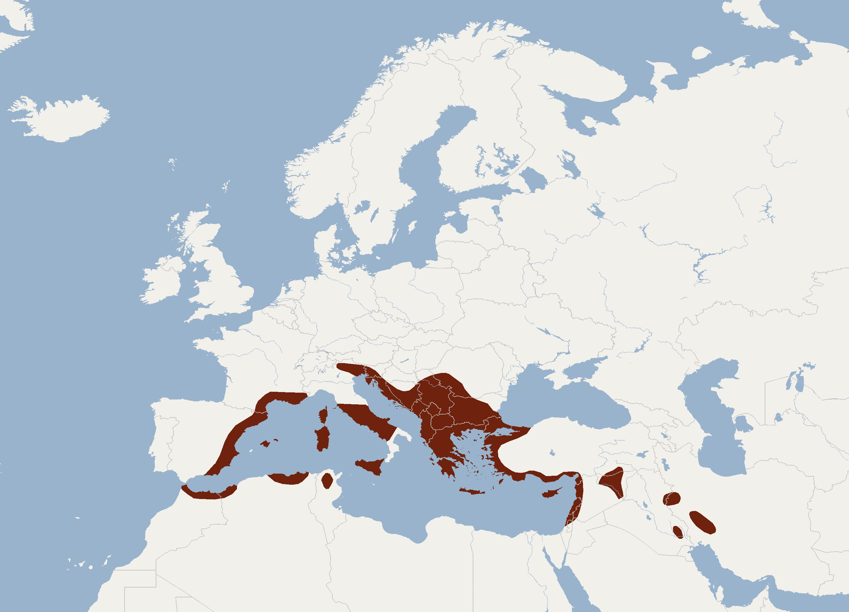 According to Aulagnier & al., 2011, Happold & Happold, 2013